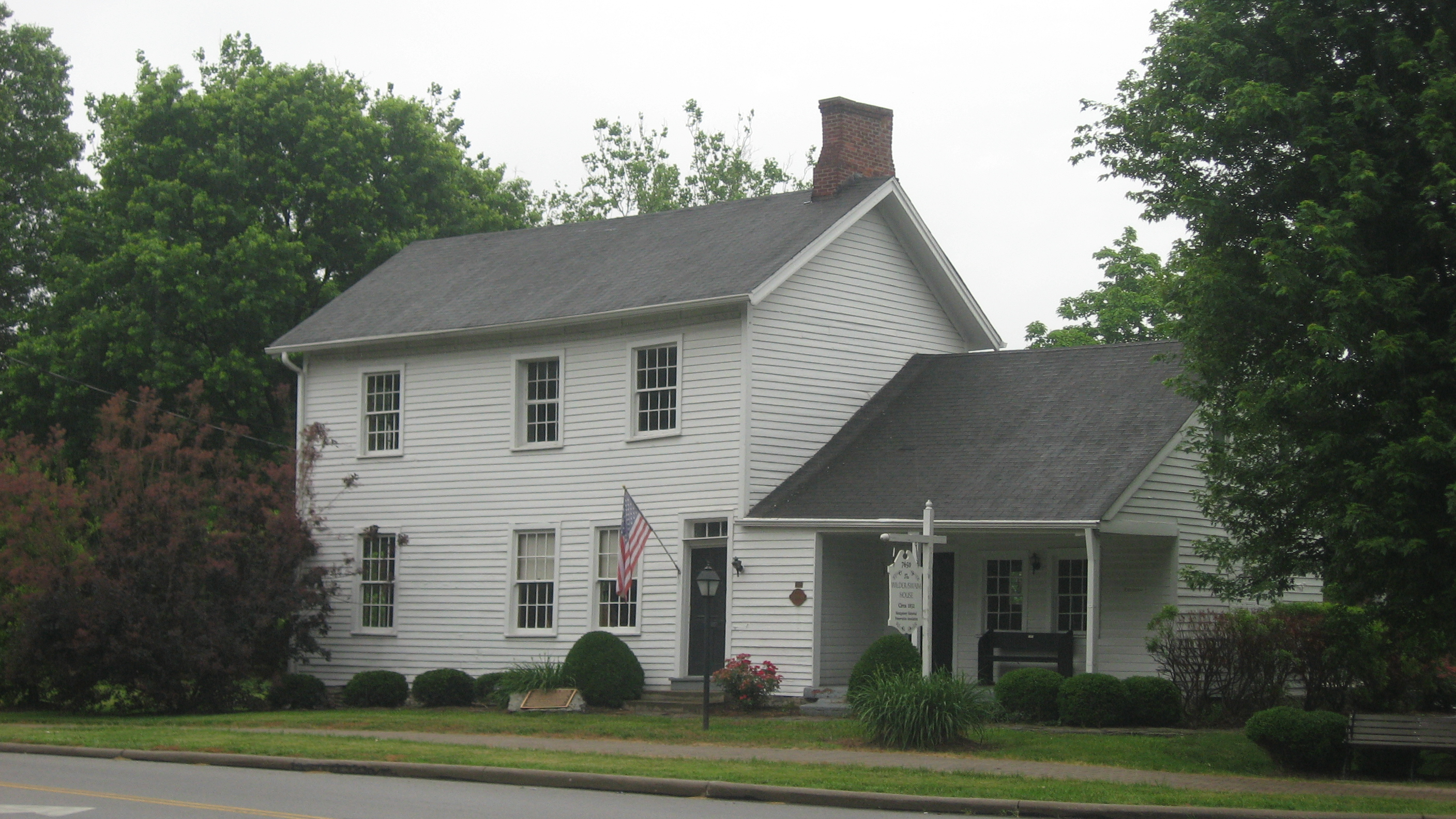 Front of the Wilder-Swaim House, located at 7650 Cooper Road in Montgomery, Ohio, United States. Built in 1815, it is listed on the National Register of Historic Places.